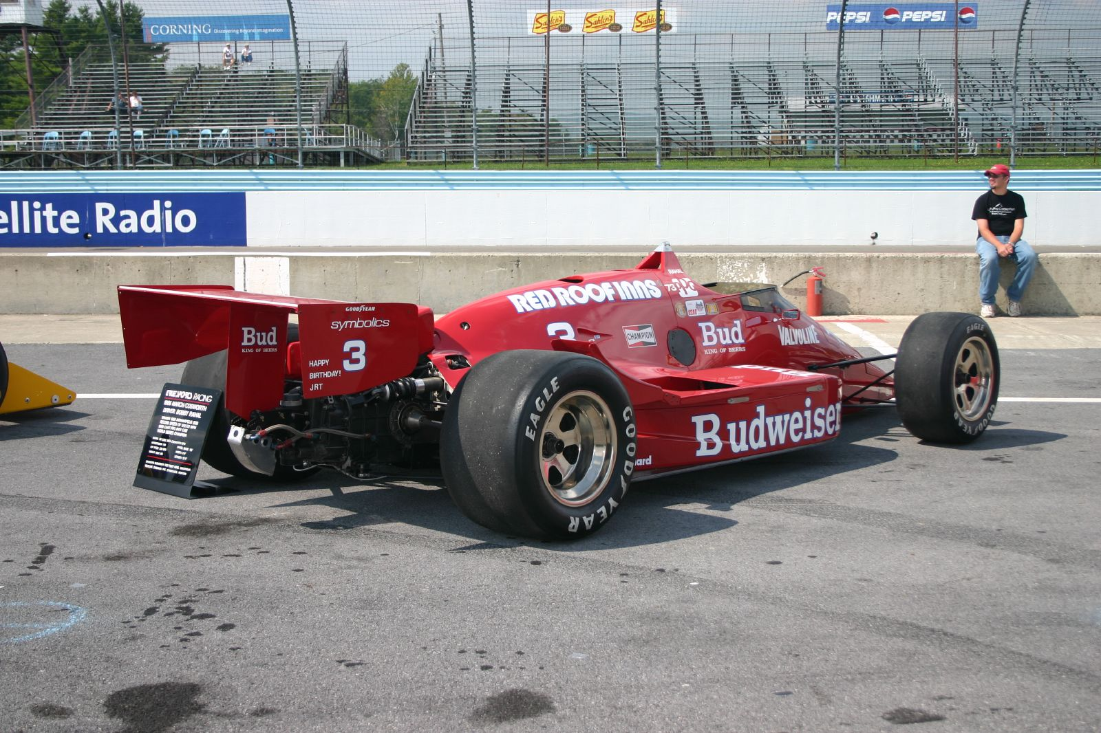 Bobby Rahal's #3 March/Cosworth Indy car. Rahal won the 1986 Indianapolis 500 in this Budweiser sponsored automobile.